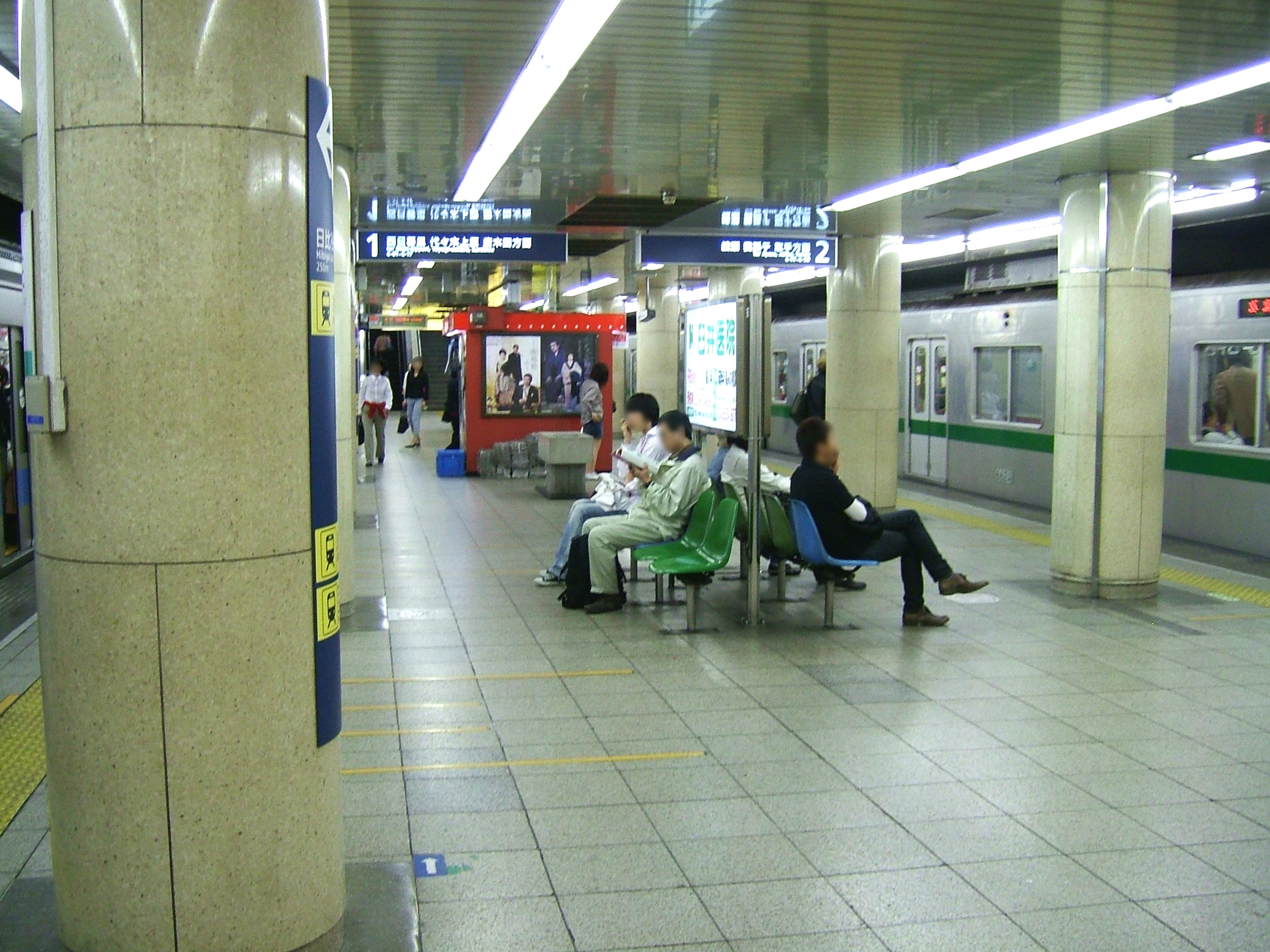 Kita-Senju Station platform (Tokyo Metro Chiyoda Line, East Japan Railway Jōban Line)